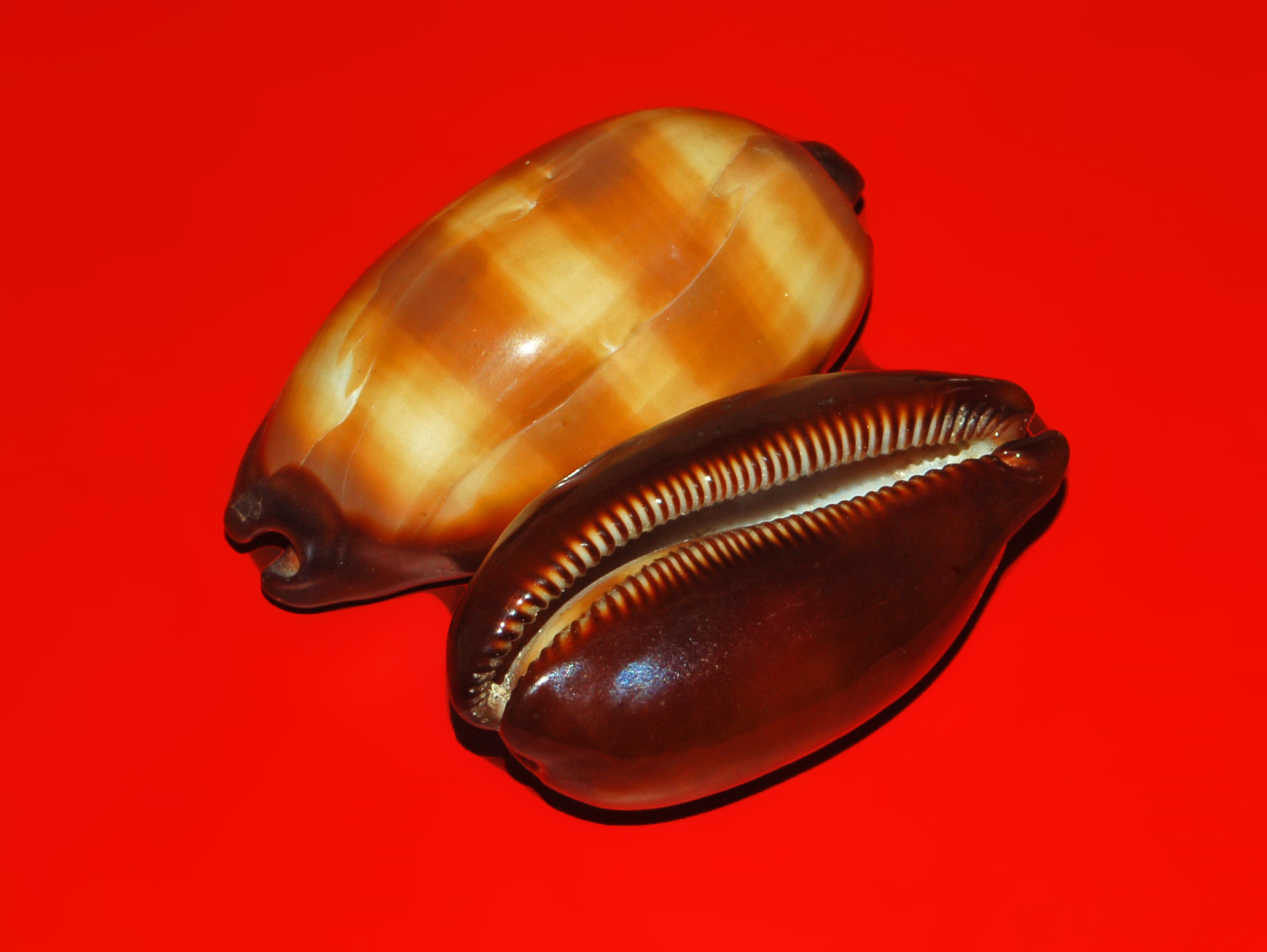 Talparia talpa